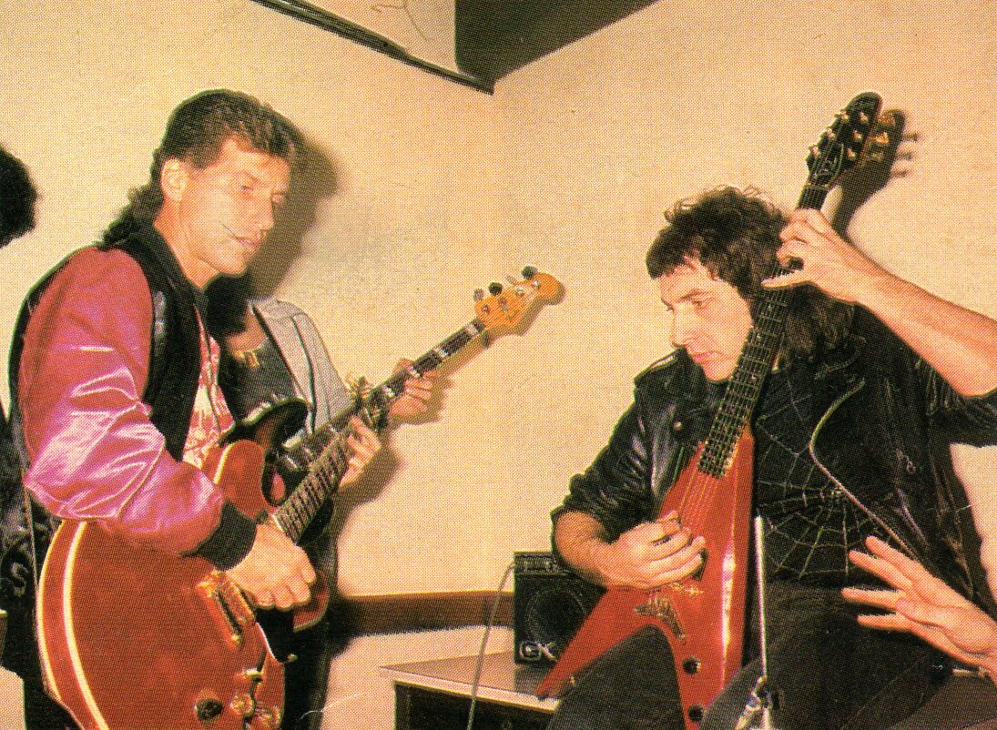 Two guitarists together: Johnny Rivers (left) and Norberto Pappo Napolitano when they met in 1986 in Buenos Aires.